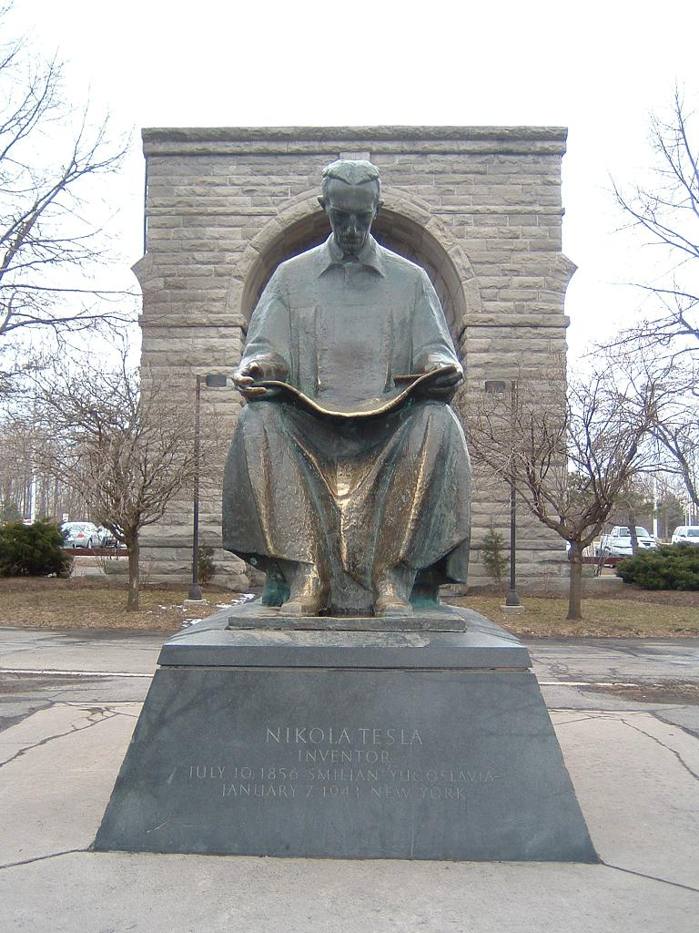 Statue of Nikola Tesla in the State Park of the Niagara Falls